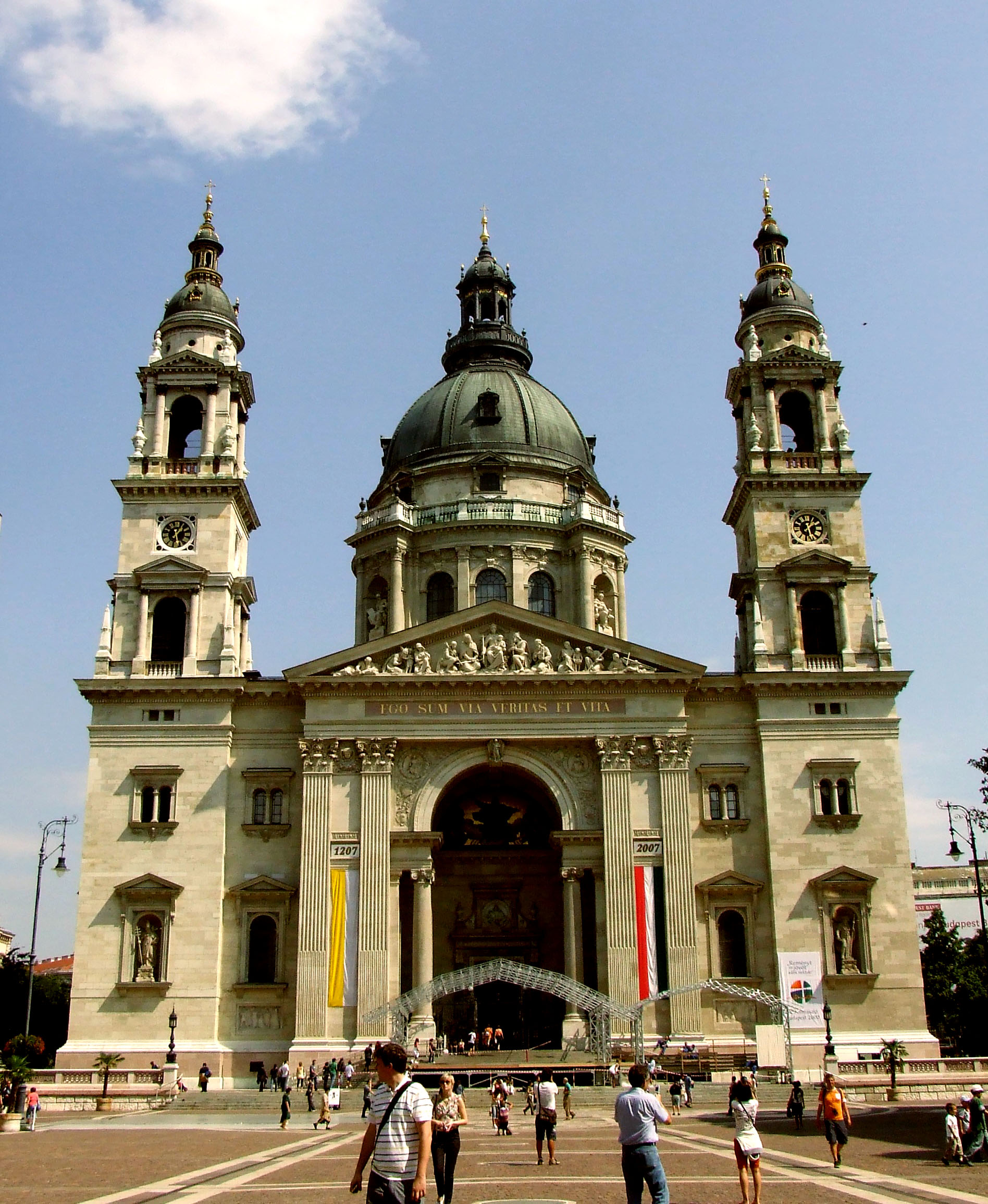 The Cathedral of St. Stefan (Szent Istvan), Budapest, Hungary